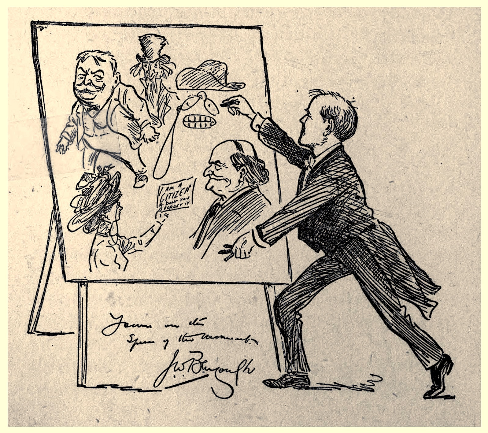 Canadian cartoonist John Wilson Bengough caricatures himself giving a chalk talk